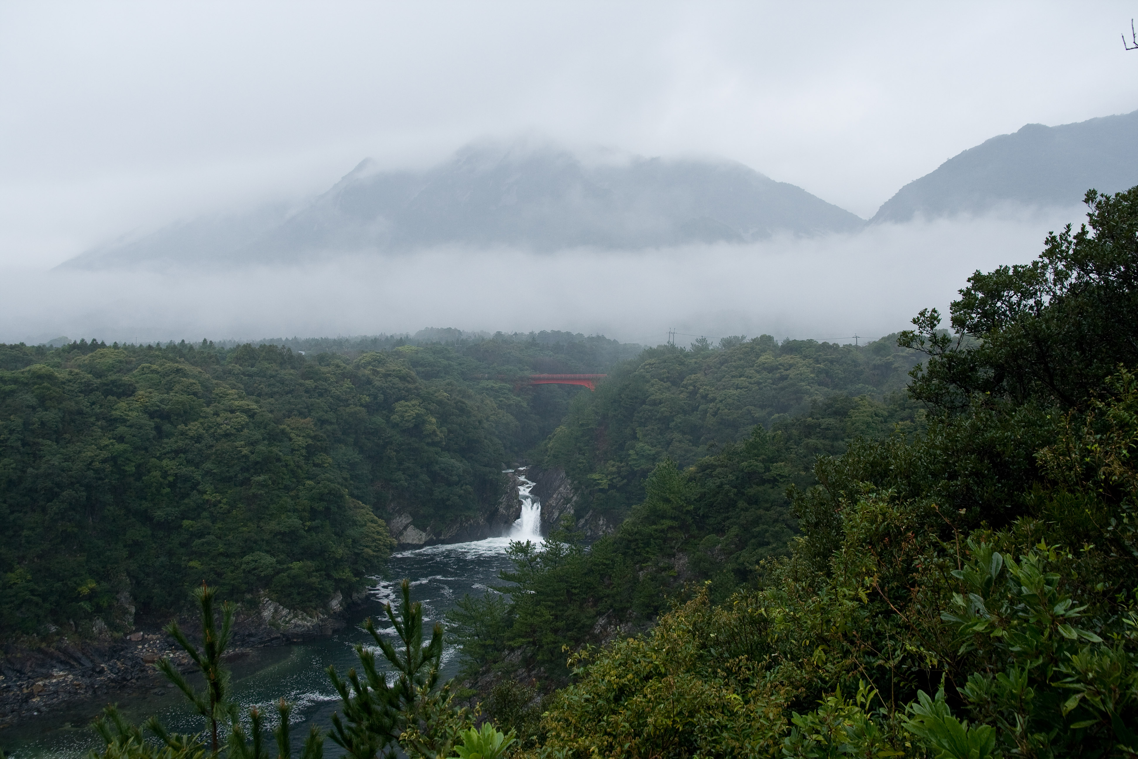 Toroki Falls in Yakushima, Kagoshima Pref., Japan.